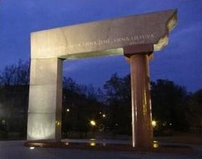 Photo of Arka Monument in Klaipėda, Lithuania.